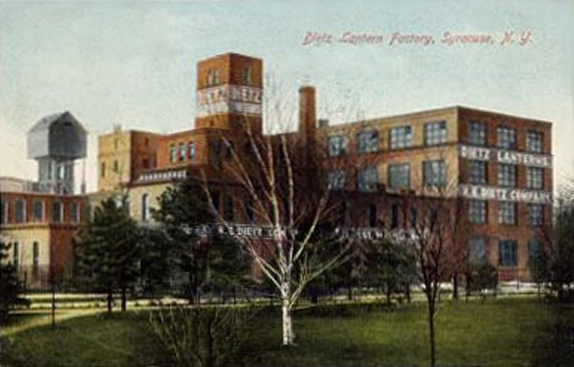 Dietz Lantern Factory in Syracuse, New York about 1910